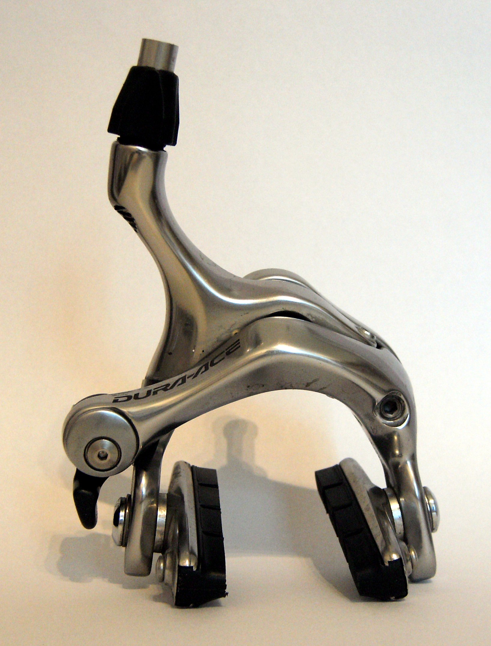 Dura Ace brake